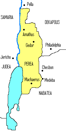 Map of Perea (1st century C.E.)